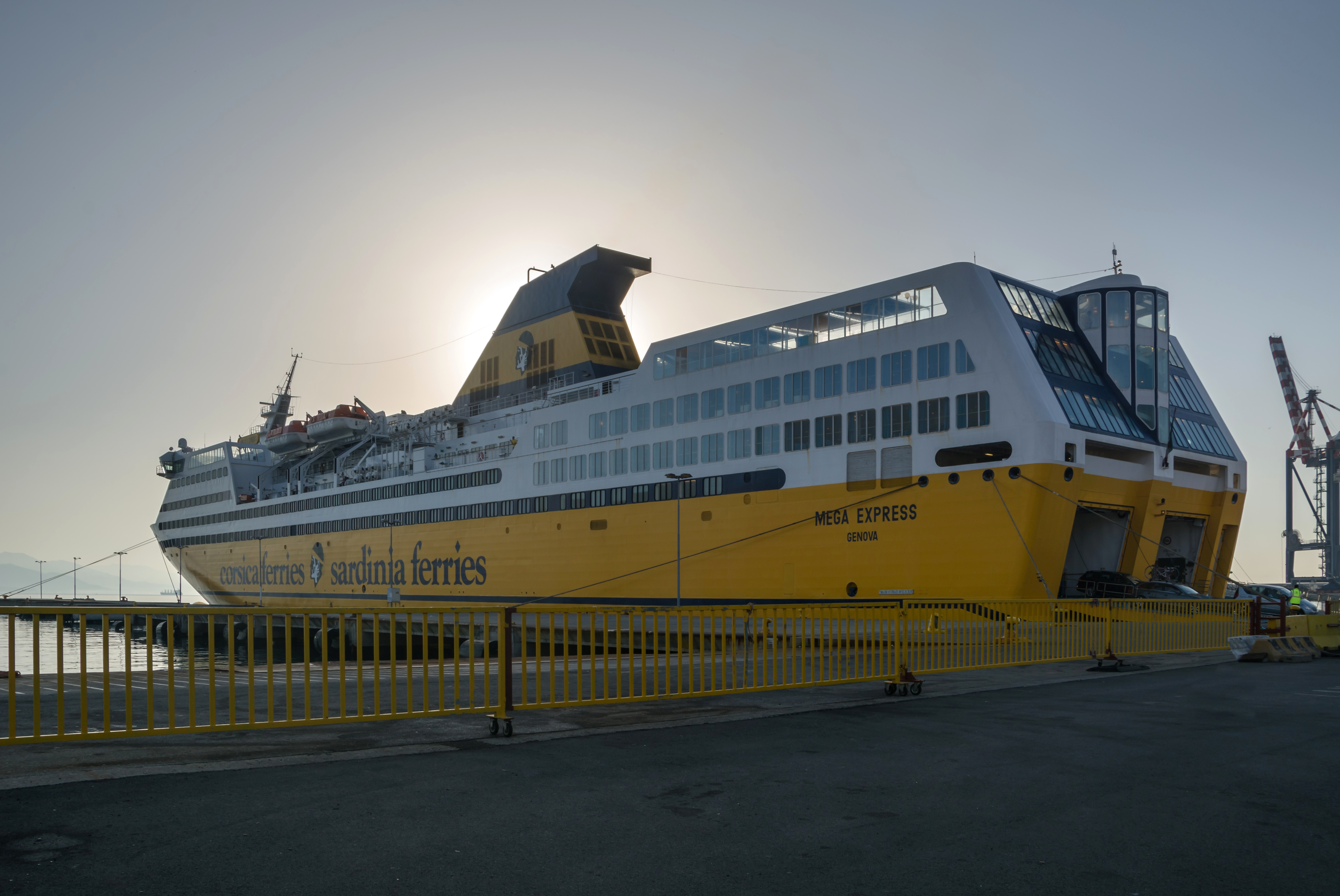 The ferry boat "Mega Express" in the harbour of Vado Ligure.